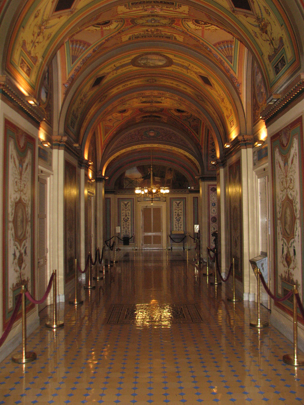 Photograph of the Brumidi Corridors in the north wing of the United States Capitol looking east (toward the Patent Lobby), taken by Rebel At| on June 23rd, 2007.